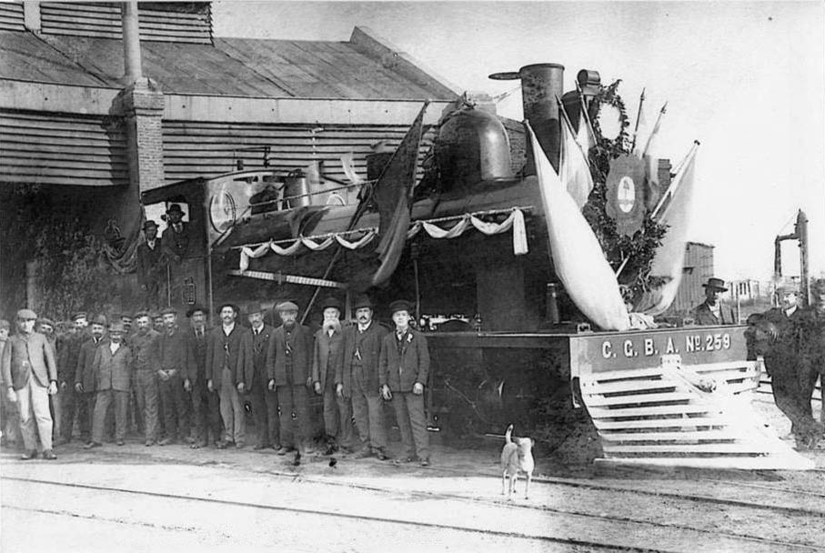 Steam locomotive and workers of the Compañía General de Buenos Aires posing in the company's depot in La Bajada, Rosario (Argentina).